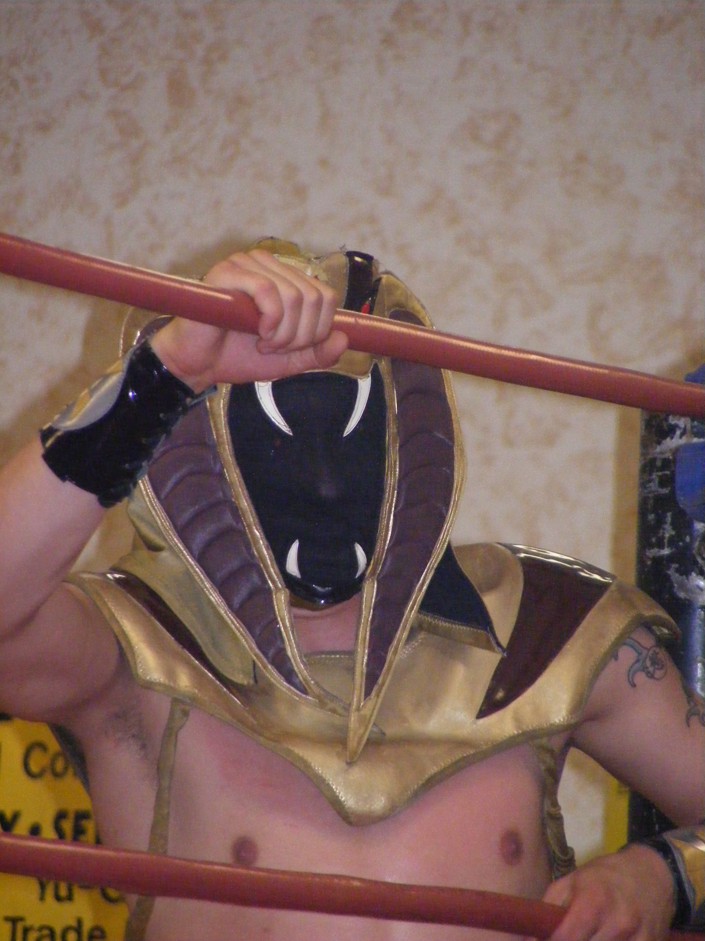 Professional wrestler Ophidian of The Osirian Portal tag team at a Chikara show on November 22, 2008 in Wallingford, CT.